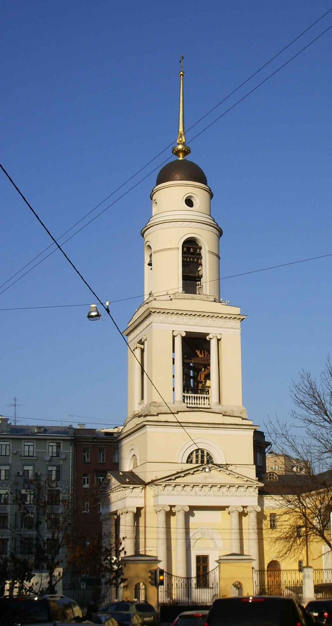 the Belltower of the Church of the Ascension at the Nikitsky Gate Sqair, Moscow, Russia